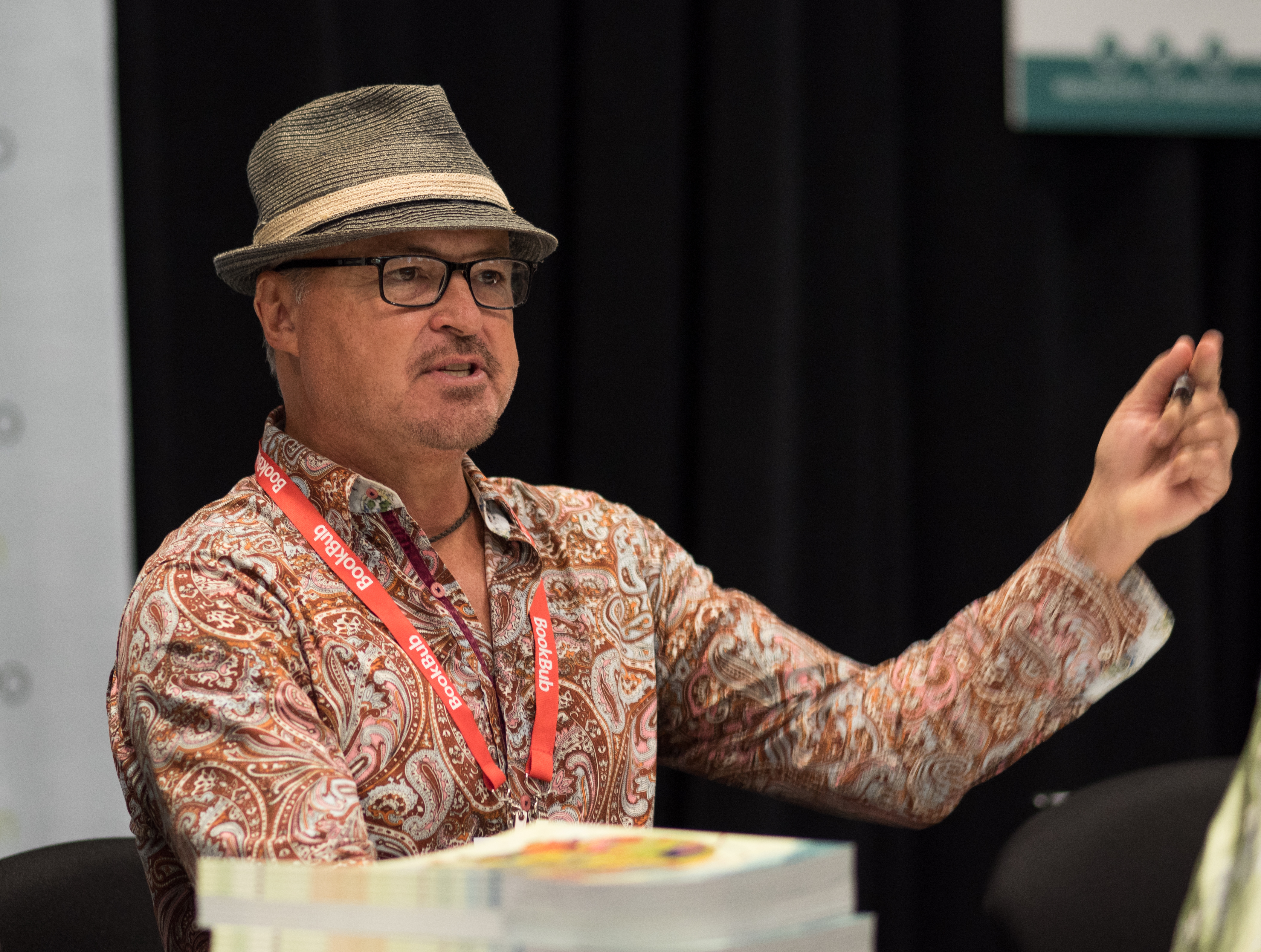 Rafael Lopez BookExpo America 2018 at the Javits Convention Center in New York City.